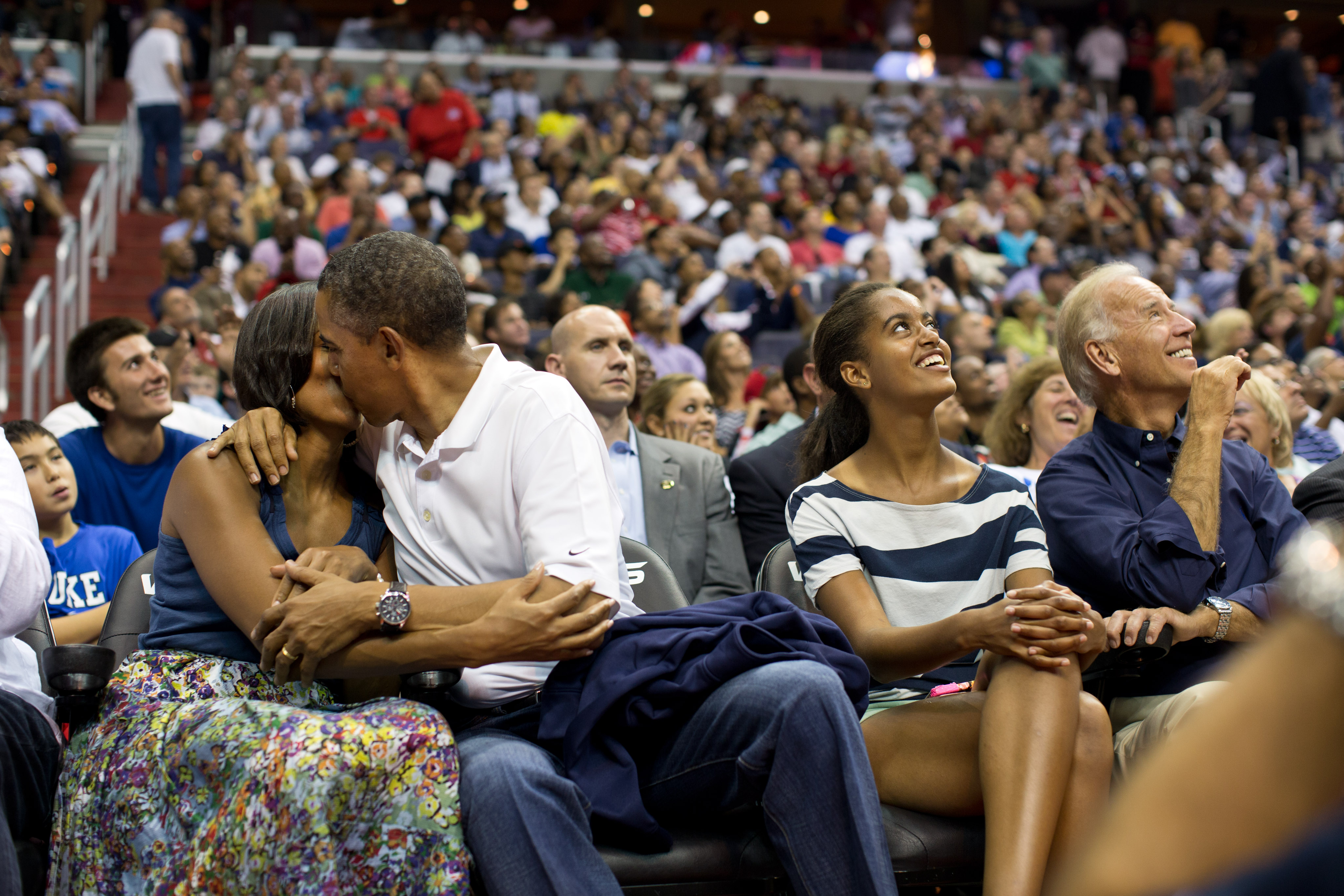 United States President, Barack Obama, and First Lady, Michelle Obama, kissing for the benefit of the kiss cam during a basketball game between the U.S. Men's Olympic basketball team and Brazil in Washington, D.C. The audience cheered as Malia Obama and the Vice President, Joe Biden, watched overhead on the Jumbotron.The Obamas first kissed at the corner of Dorchester Avenue and 53rd Street in Chicago in 1989, and a bronze plaque was erected there on 15 August 2012 upon a 3,000-pound granite boulder. The plaque bore the commemorative inscription, "On this site, President Barack Obama first kissed Michelle Obama."